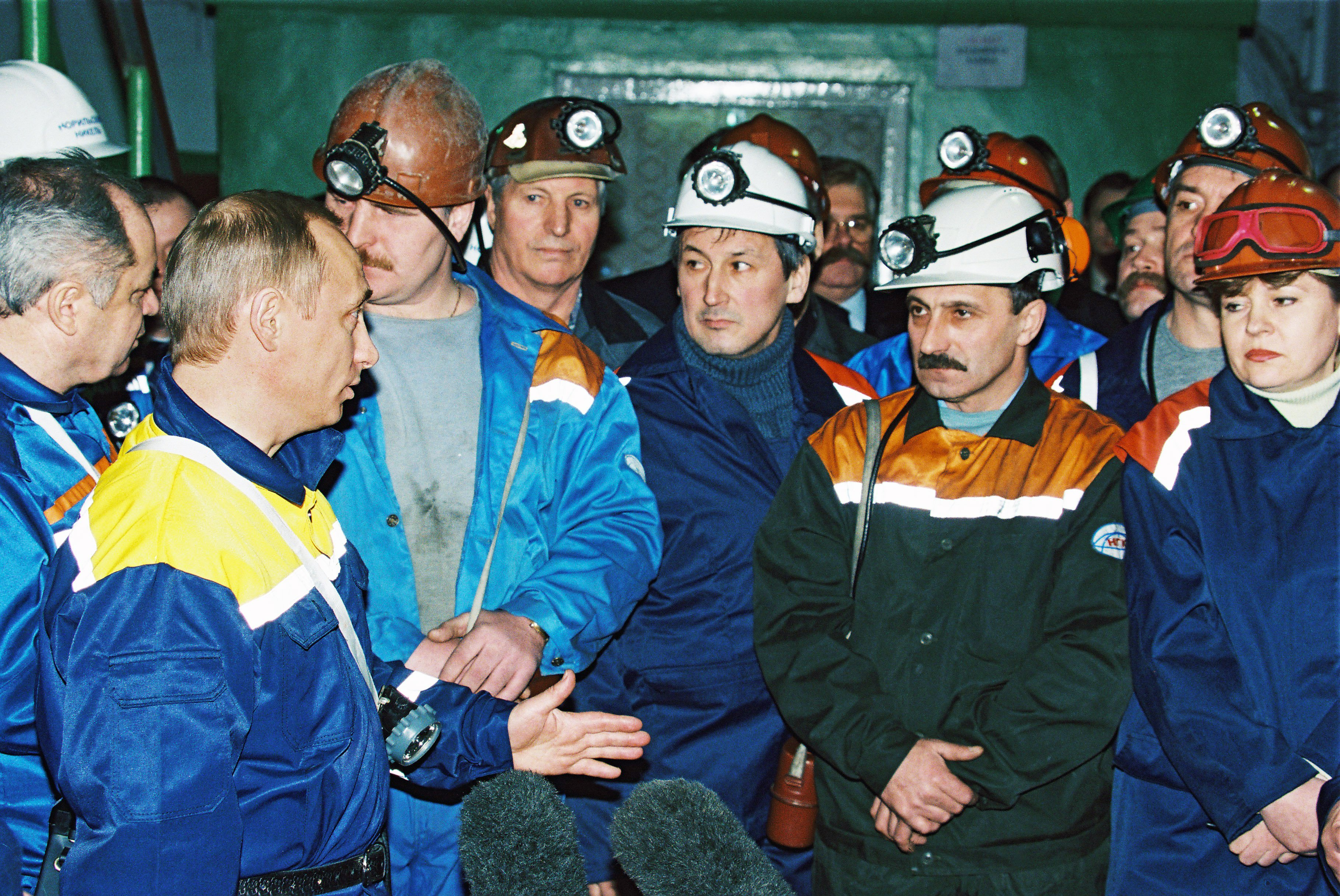 TAIMYR (DOLGANO-NENETS) AUTONOMOUS DISTRICT. President Putin with underground workers of Oktyabrsky Mine of the Norilsk mining and metals company.